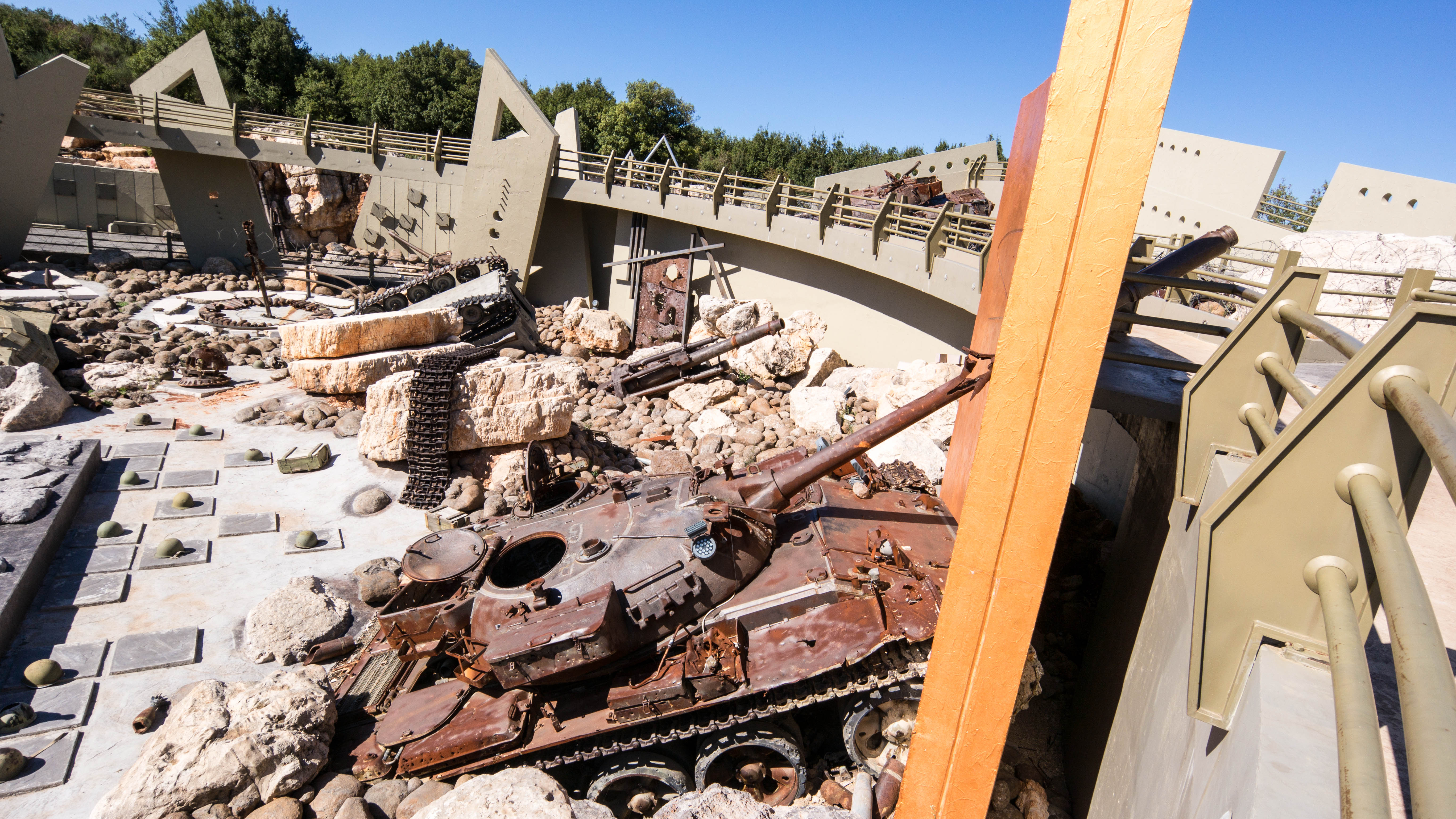 A destroyed South Lebanon Army tank at the main exhibit at Hezbollah's Mleeta museum in Lebanon.